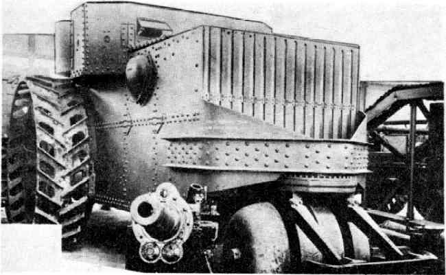 The Steam Wheel Tank was the official US Army name for the vehicle also known as the three-wheeled steam tank, and the Holt Steam Tank.